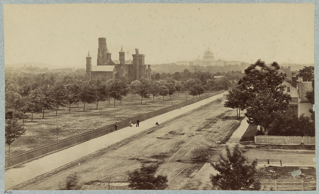 Photograph showing bird's-eye view of the Smithsonian Institution building in the near distance with the Capitol building in the background.